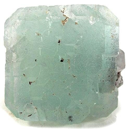 Fluorite Locality: Buckskin Mts, La Paz County, Arizona, USA (Locality at ) A beautiful, translucent and lustrous, limpid sea-green fluorite cube from the famous Buckskin Mountains of Arizona. This pristine, fine piece is unusual, in that, the specimen exhibits cube, octohedron and dodecahedron faces. Ex Carl Davis Collection. 3.3 x 3.3 x 2.6 cm